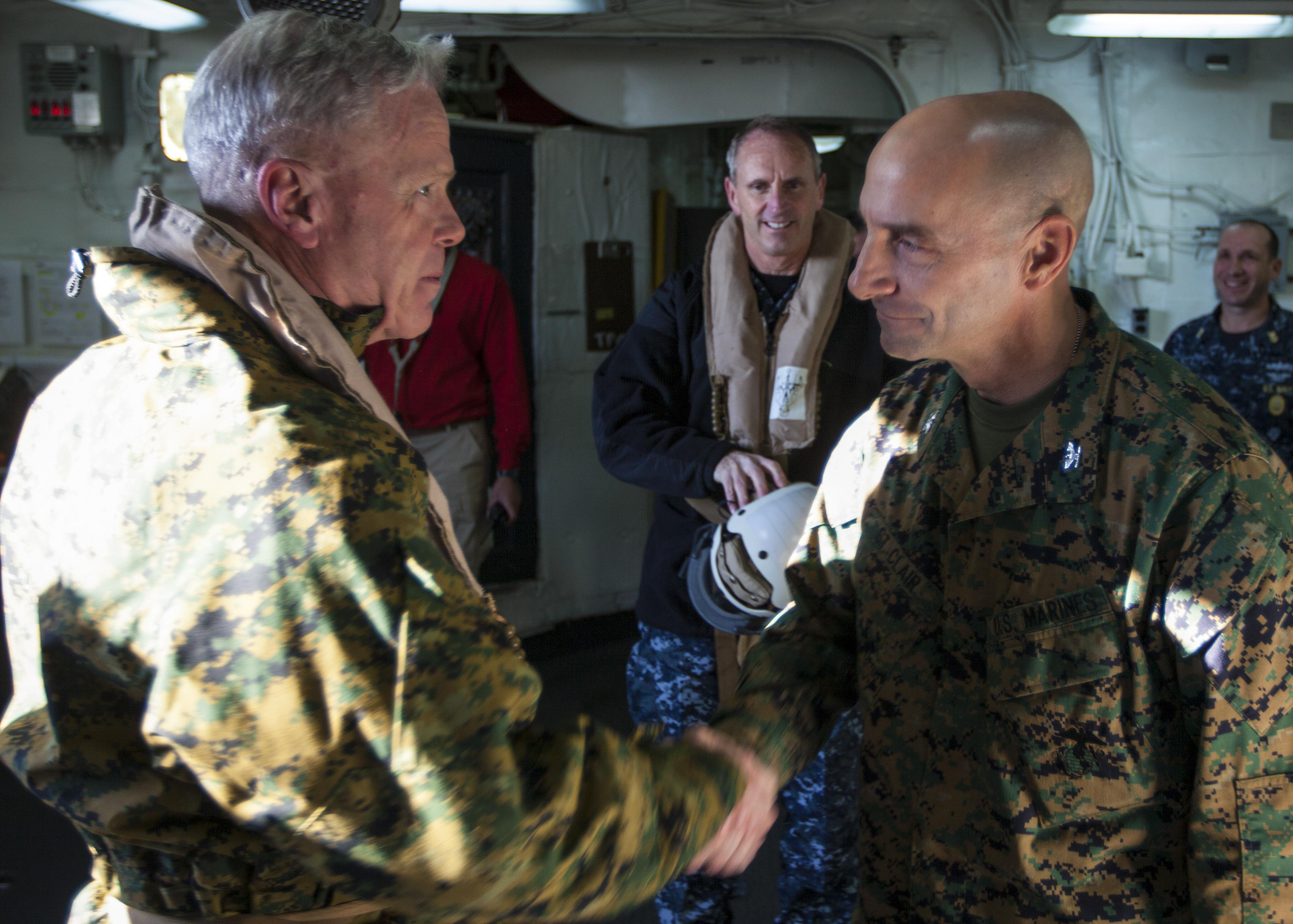 Gen. Amos met with the commanding officer of the 26th MEU on Nov. 5, 2012 2013 to discuss further plans regarding disaster relief for Hurricane Sandy, in the tri-state area. The 26th MEU is able to provide generators, fuel, clean water, and helicopter lift capabilities to aid in disaster relief efforts. .